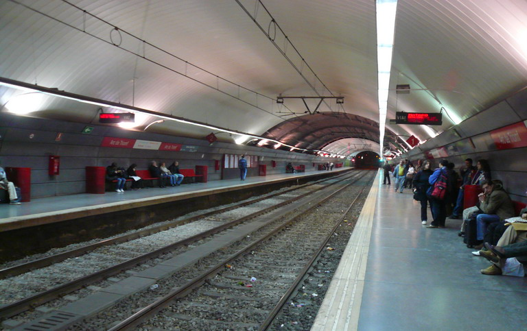 Arc de Triomf Renfe station, in Barcelona, Catalonia.